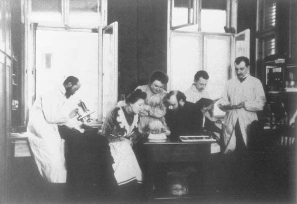 Neurobiological laboratory (Neurobiologisches Laboratorium) about 1902/03. From left: Korbinian Brodmann, Cecile Vogt, Luise Bosse, Oskar Vogt, Max Lewandowsky, Max Borcherdt